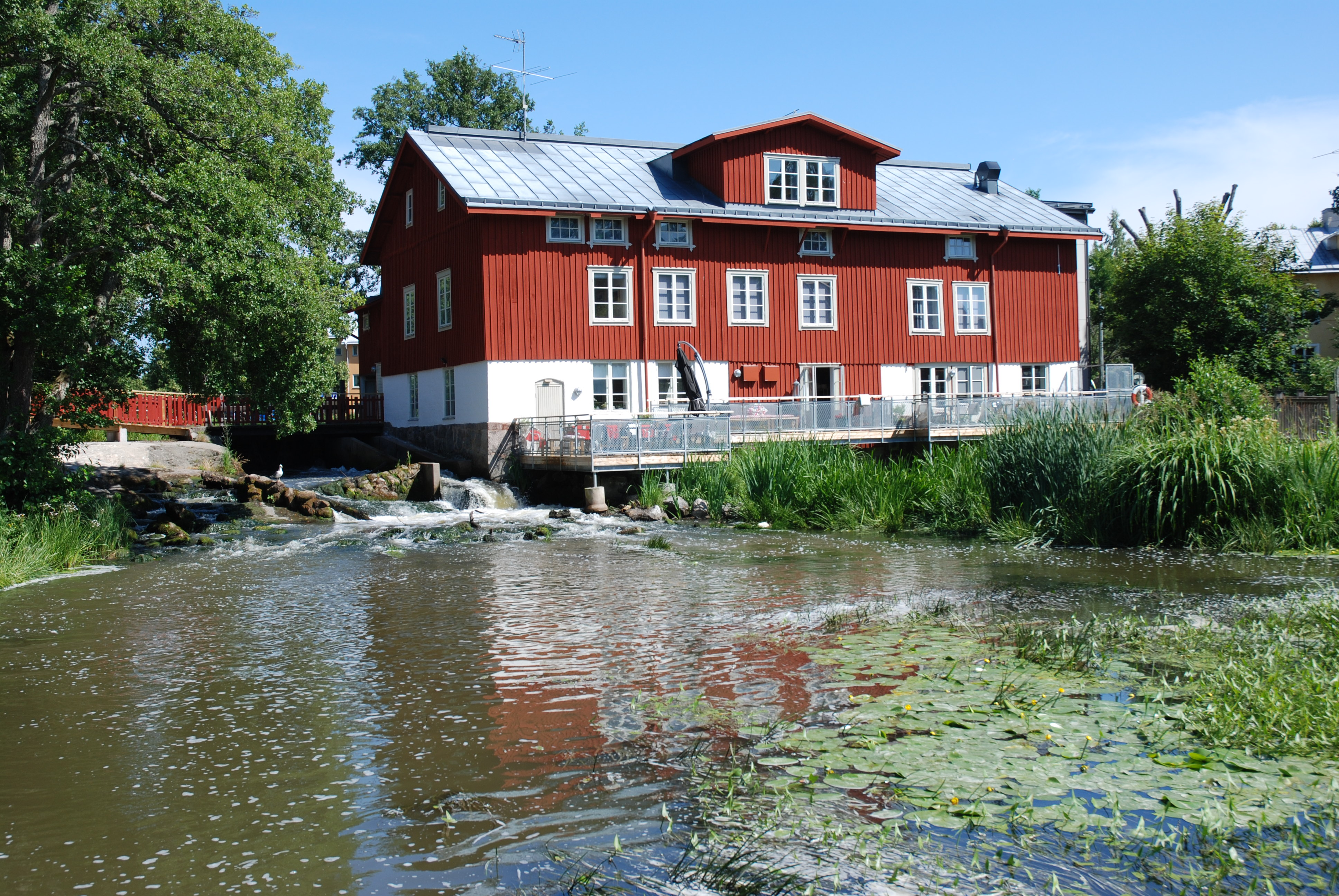 Trosa kvarn (Trosa water mill), Trosa, Sweden, from downstream the mill